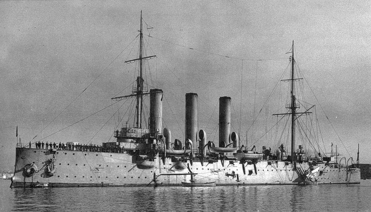 Cruiser Avrora at Baltik, later than 1909.